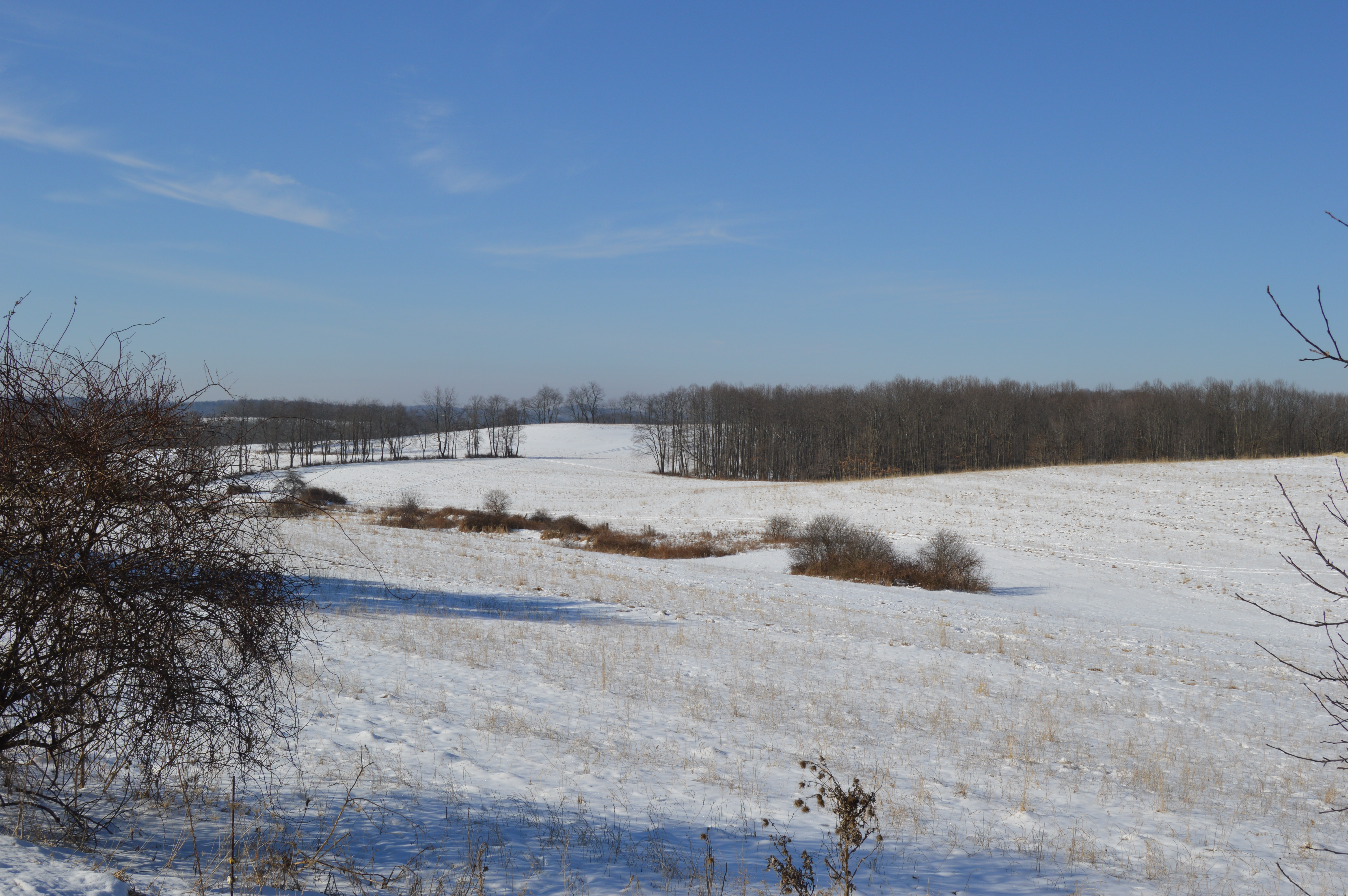 Rolling hills west of Saltsburg in Bell Township, Westmoreland County, Pennsylvania, United States. Photo looks west from Pennsylvania Route 819.